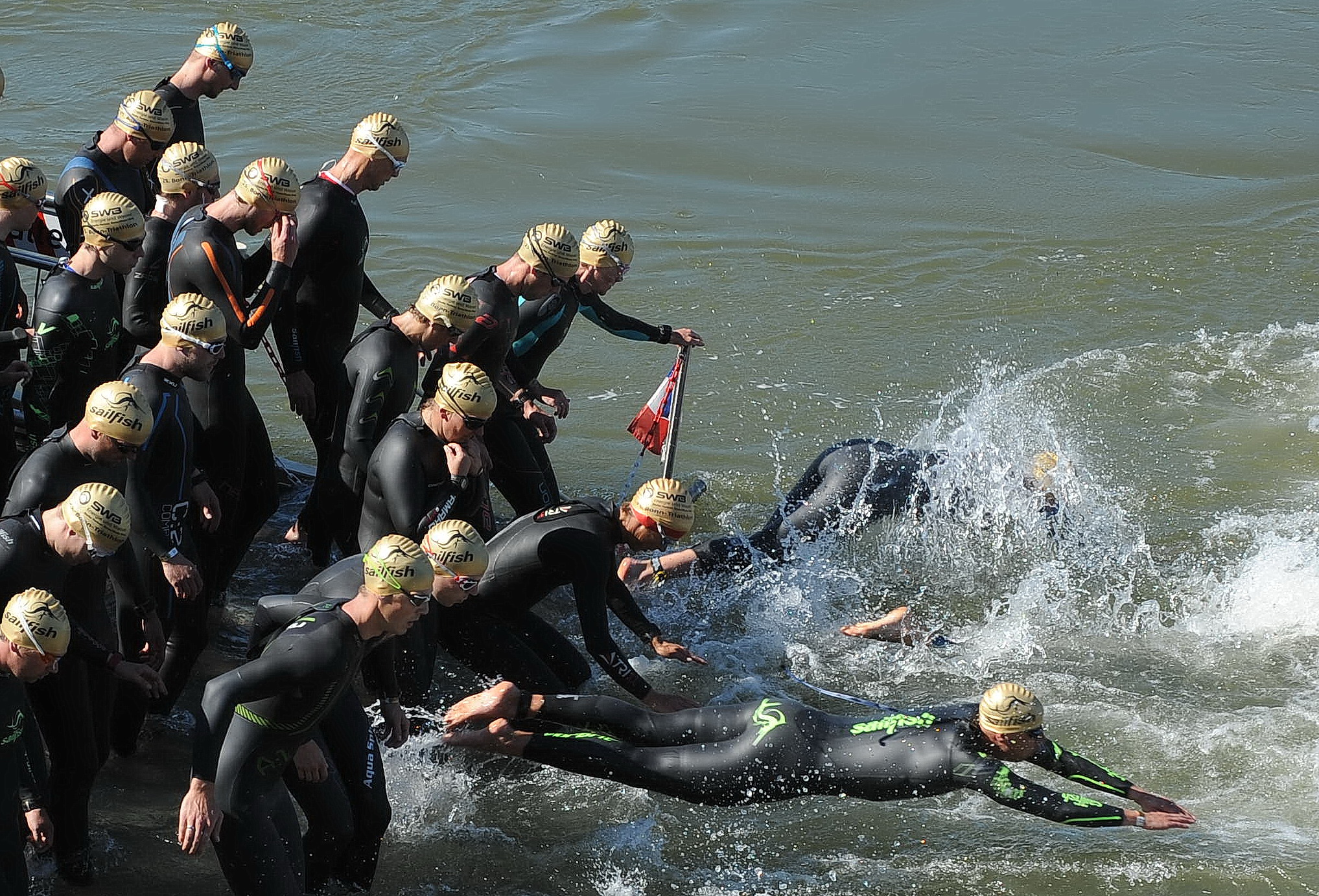 Triathletes starting from a ferry boat in the river Rhine at Bonn Triathlon 2015